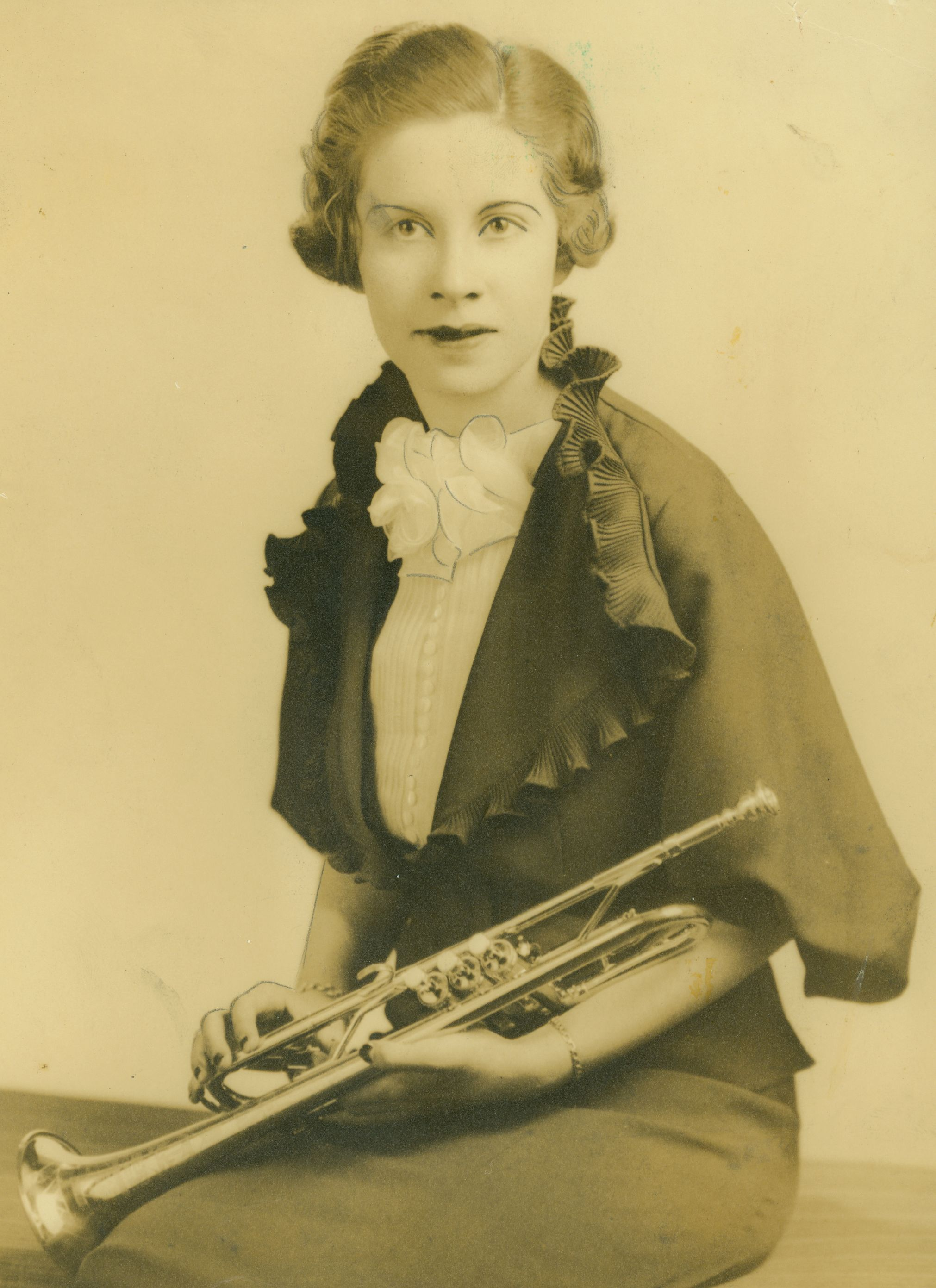 Frances Klein as a teenager holding trumpet.